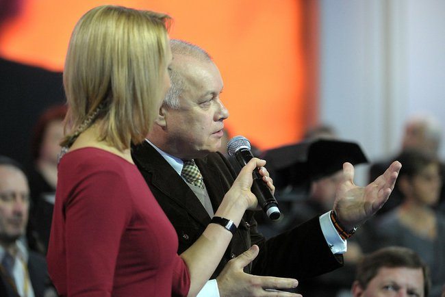 Direct Line with Vladimir Putin (2014-04-17)